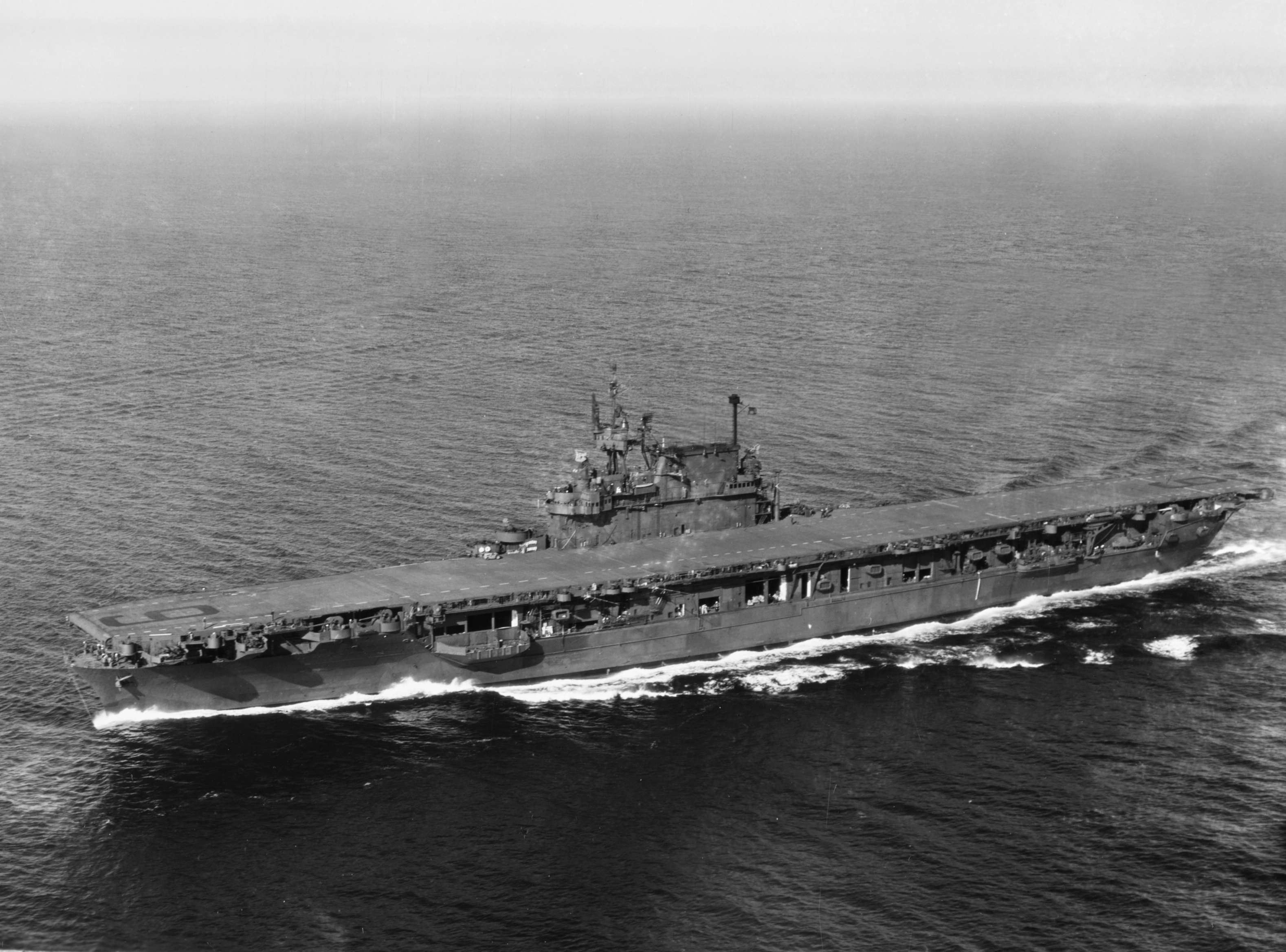 The U.S. Navy aircraft carrier USS Enterprise (CV-6) making 20 knots during post-overhaul trials in Puget Sound, Washington (USA), on 13 September 1945.